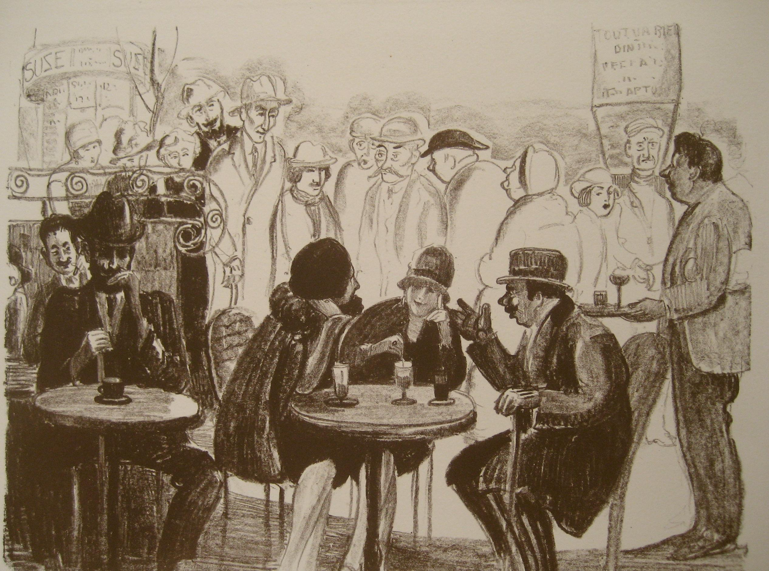 Mabel Dwight, Boulevard des Italiens (Cafe, Boulevard de Italiens), 1927, lithograph, 24.6 x 32.4 cm, edition of 12